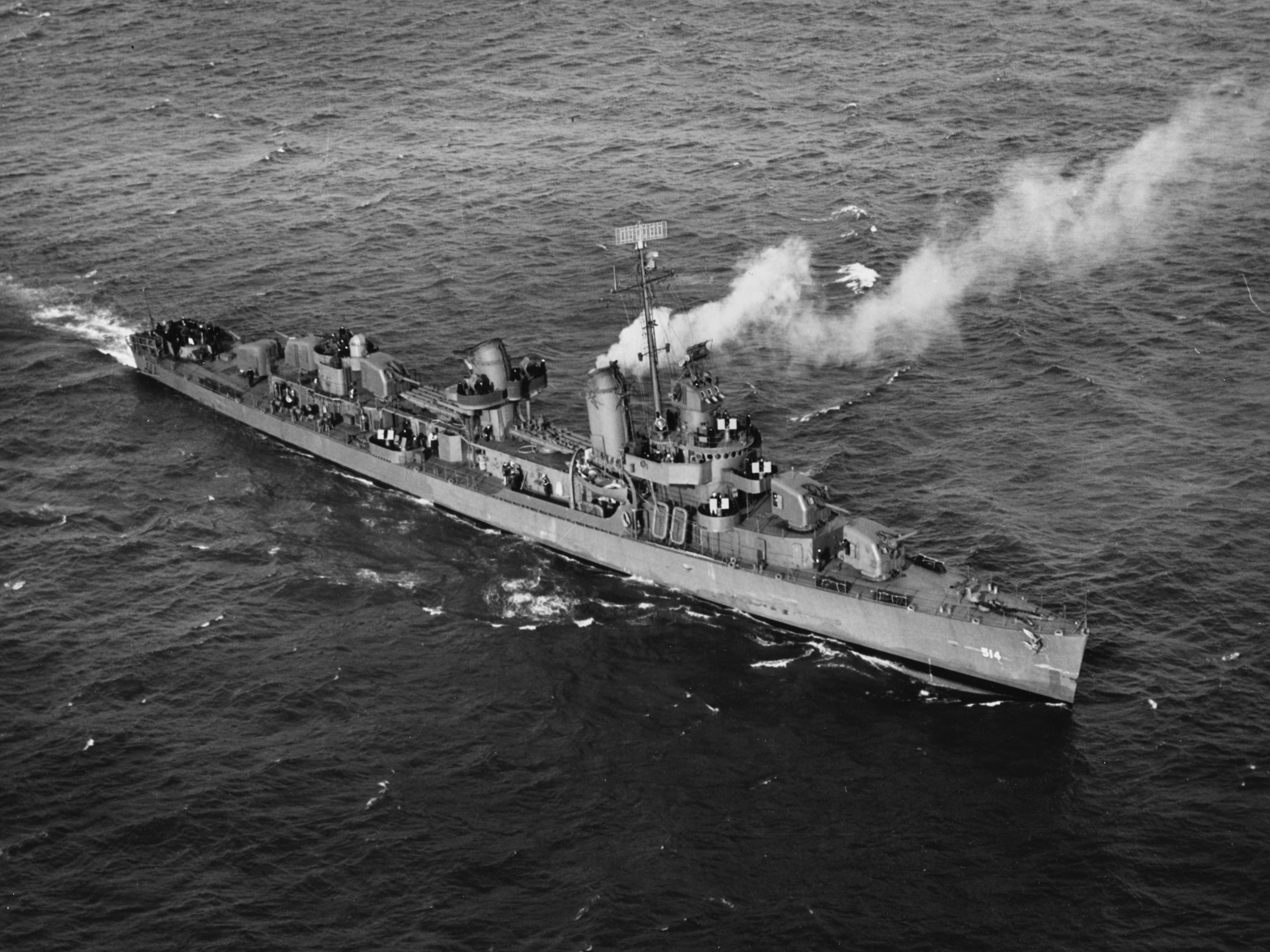 The U.S. Navy destroyer USS Thatcher (DD-514) underway in Boston harbor, Massachusetts (USA), 28 February 1943. Note the 20 mm guns amidships and forward using the photographing aircraft as an opportunity for tracking practice.